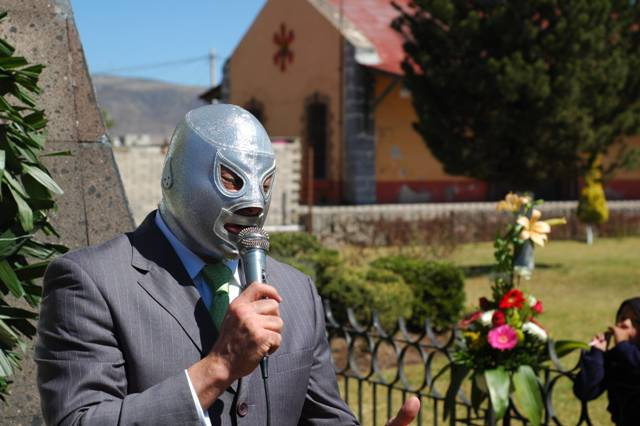 Mexican wrestler Hijo del Santo during a public ceremony in Tulancingo, Hidalgo, Mexico.